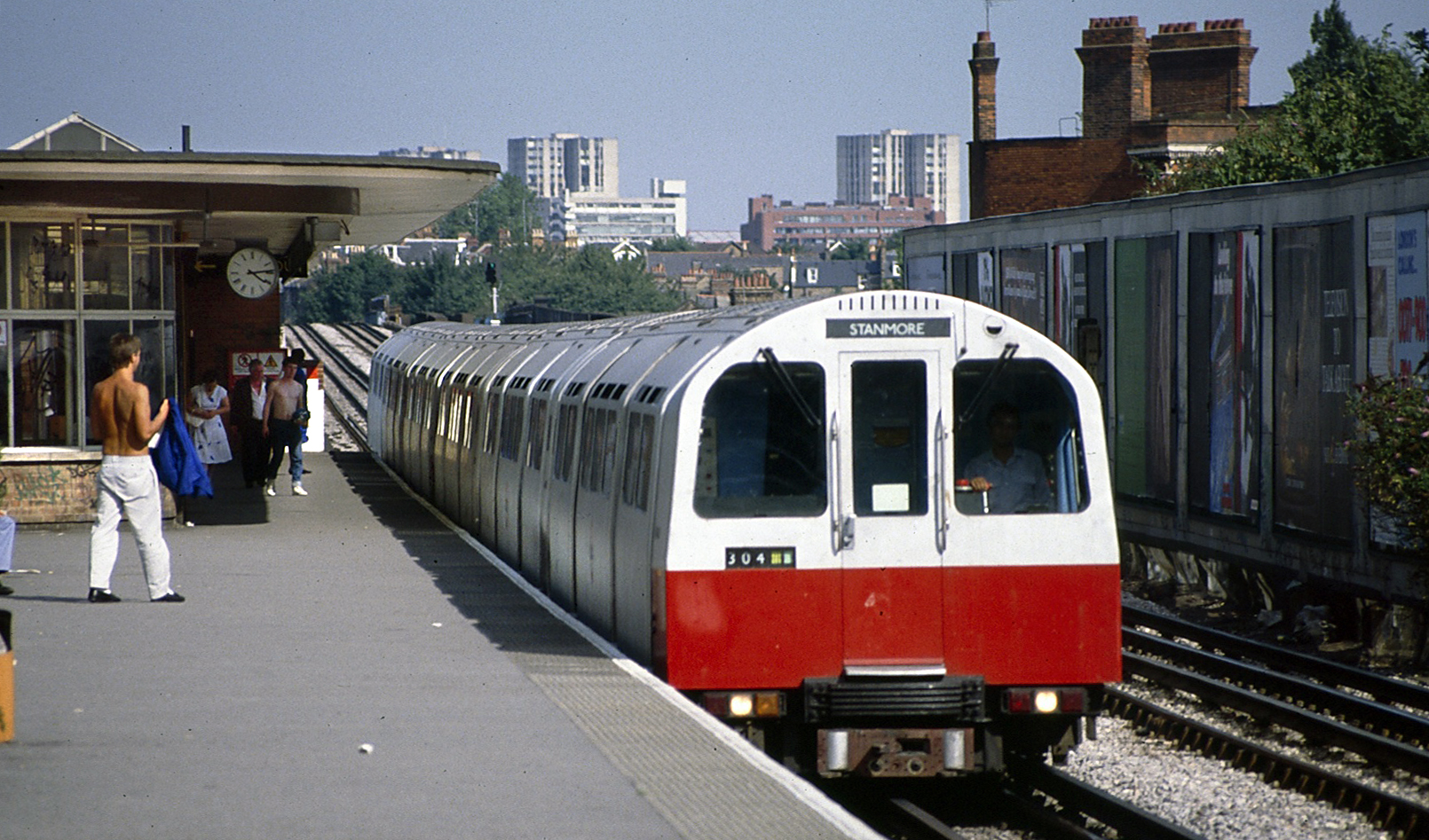 London Underground 1983 tube stock